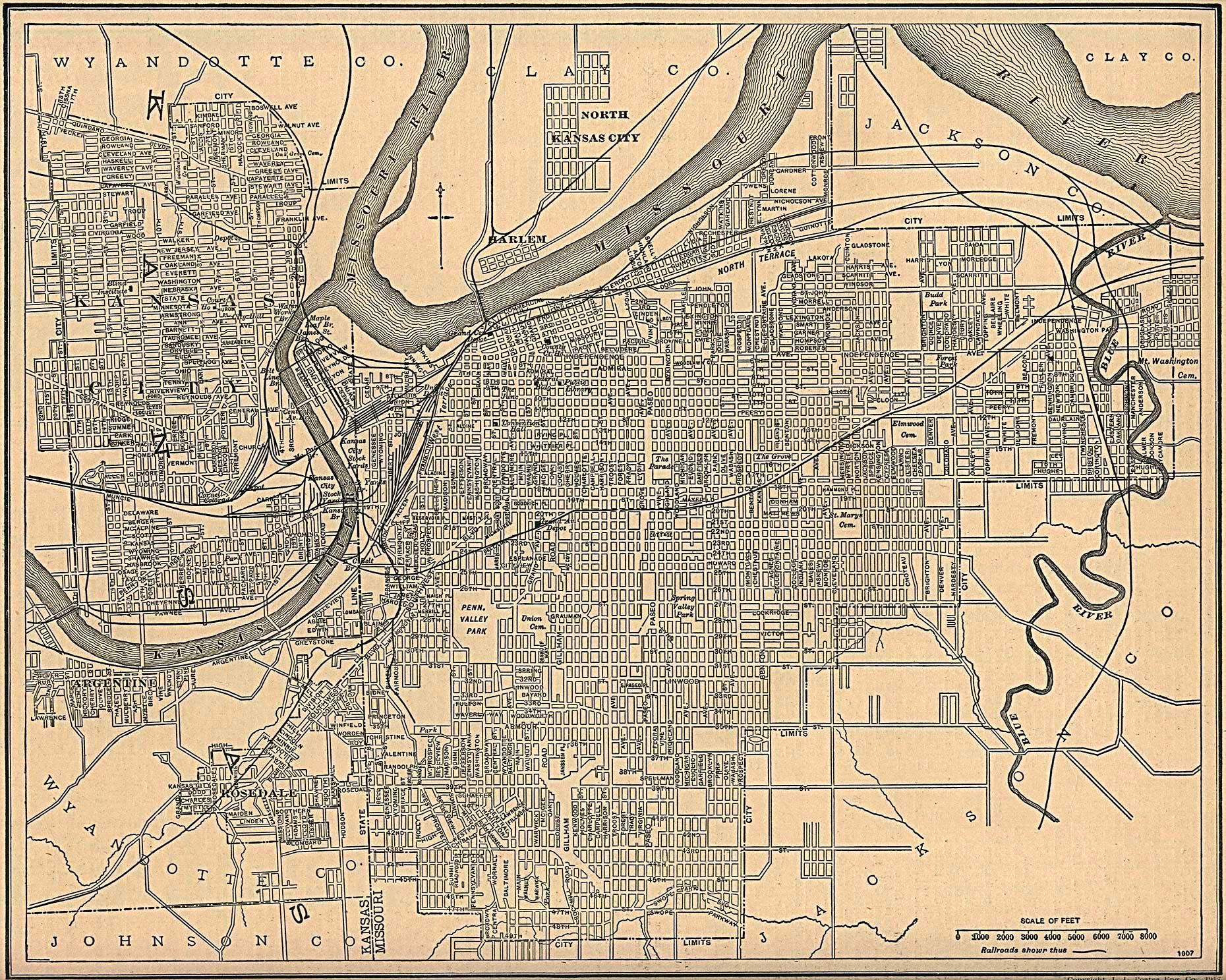 Kansas City area in 1907, originally listed at